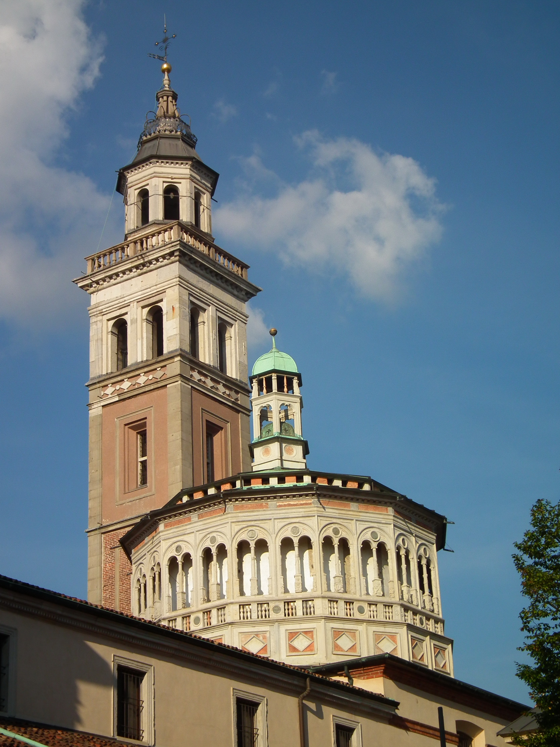 Santuario della Beata Vergine dei Miracoli, Saronno, Lombardy, Italy Santuario della Madonna dei Miracoli Native nameSantuario della Beata Vergine dei MiracoliLocationSaronno, Lombardy, ItalyCoordinates45° 37′ 34.5″ N, 9° 01′ 32.02″ E Established8 May 1498Web page control : Q3471763 VIAF: 131787309 LCCN: nr88009495 WorldCat institution QS:P195,Q3471763